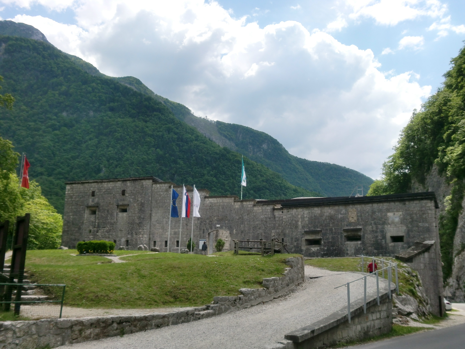 Fort Flitsch/Kluže near Bovec (Slovenia)